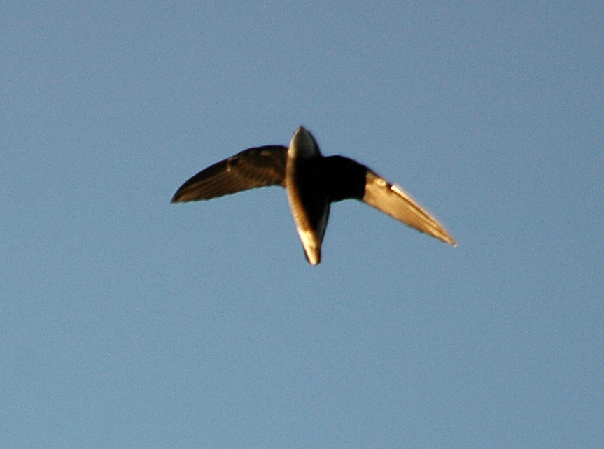 White-throated Needletail (Hirundapus caudacutus) Kobble Creek, SE Queensland, Australia